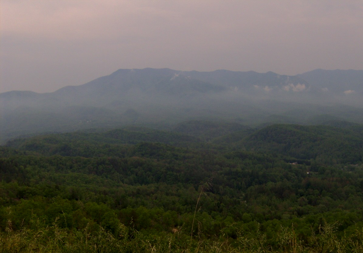 The Eastern Smokies, viewed from the Green Mountain section of Foothills Parkway in Cocke County, Tennessee. Mt. Cammerer is left of center.